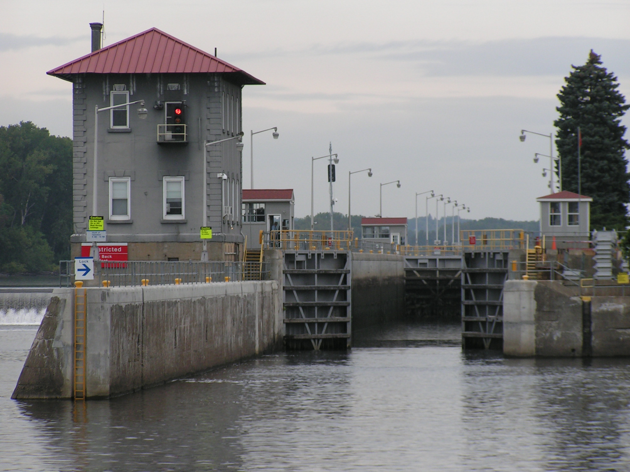 Photo of the Federal Lock and Dam, north of Troy, NY on the Hudson River.